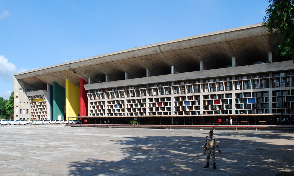 Palace of Justice, Chandigarh